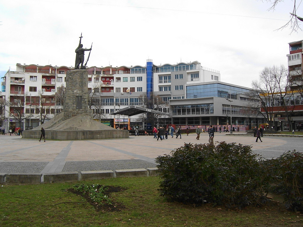 The town of Kraljevo, Serbia/La ville de Kraljevo, Serbie